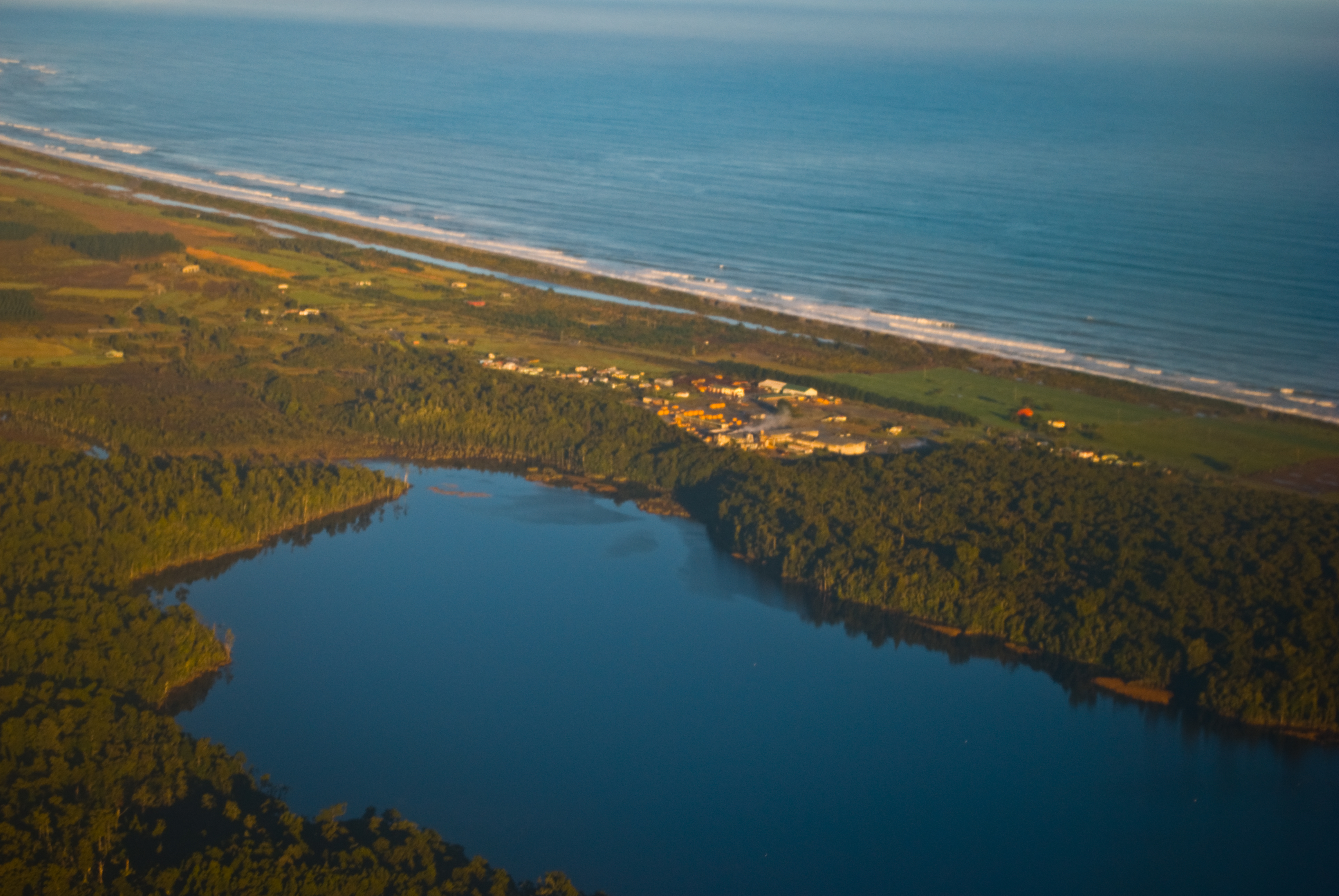 An aerial photograph of Ruatapu, New Zealand, a small village on the West Coast of New Zealand, and its surrounding. From the Flickr description, taken: "en route Christchurch to Hokitika in an Eagle Airways Beech 1900D".